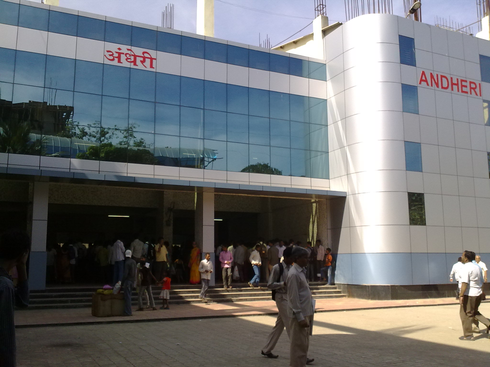 New Andheri Station Bldg East, Mumbai.